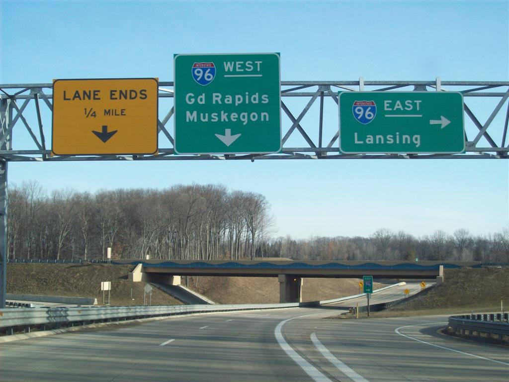 36th Street looking north at the I-96 interchange.